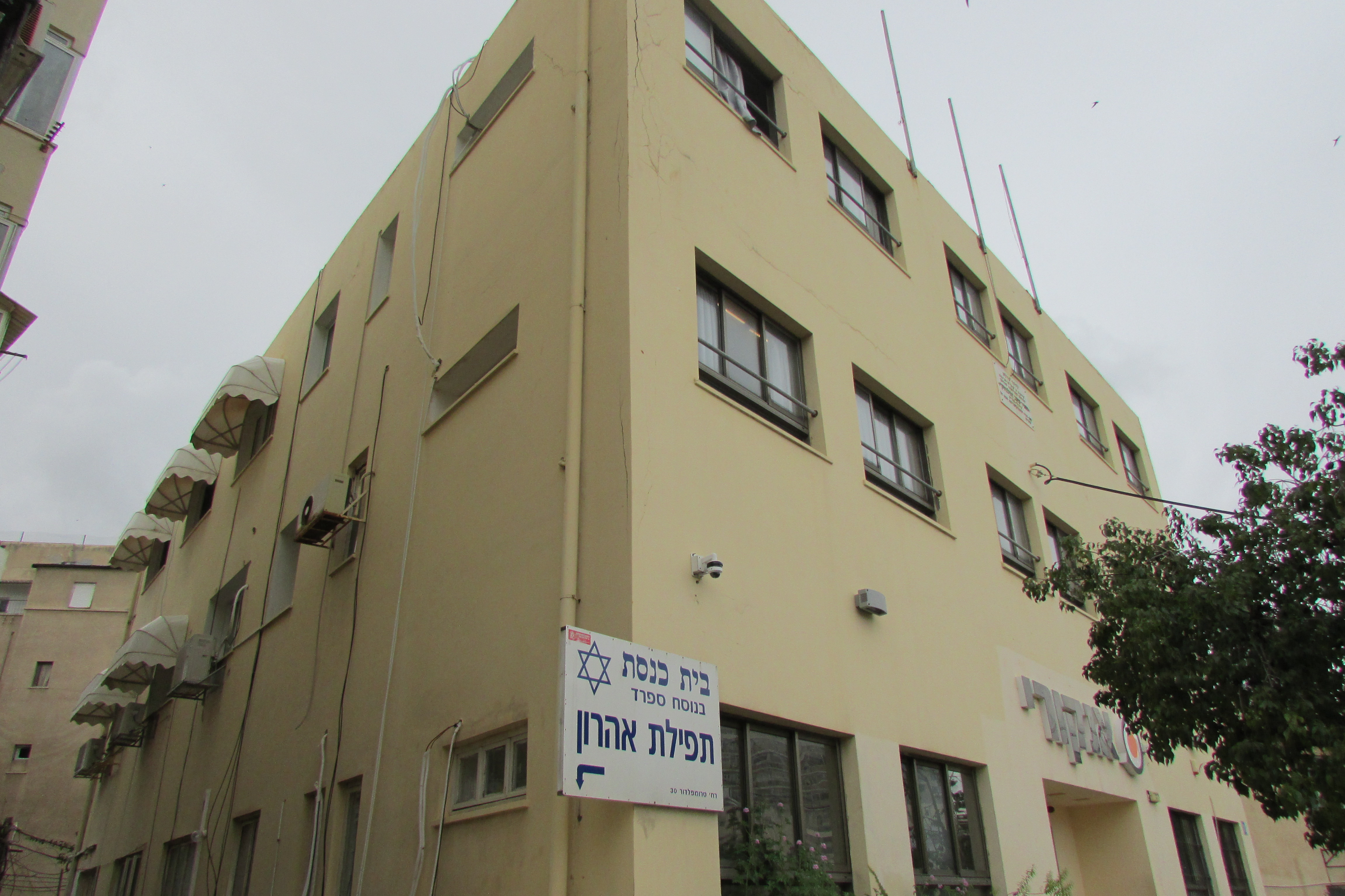 Buiding of Yeshivat Tel-Aviv, now Anchory school